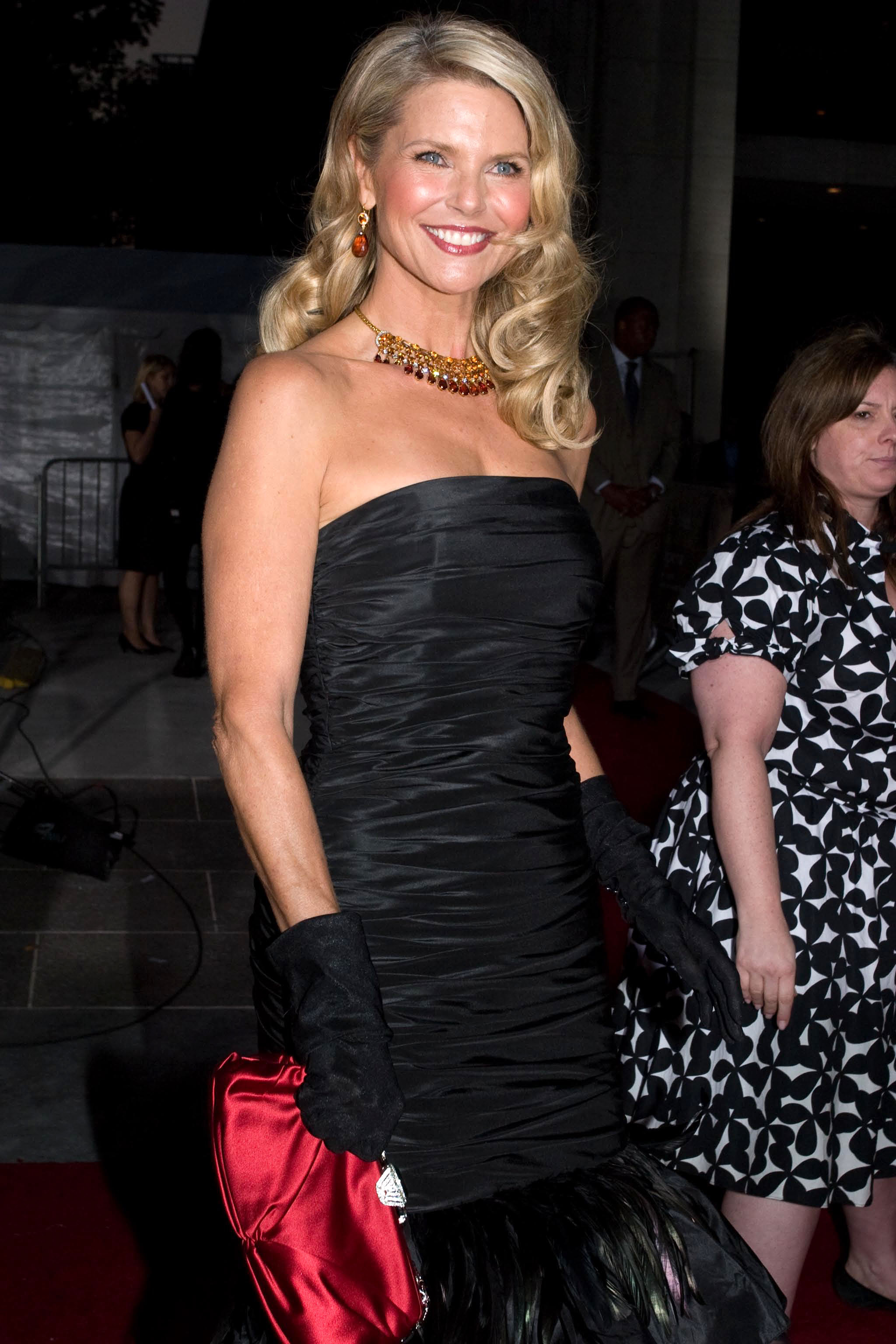 Christie Brinkley at the Metropolitan Opera opening in 2008. © Rubenstein, photographer Martyna Borkowski